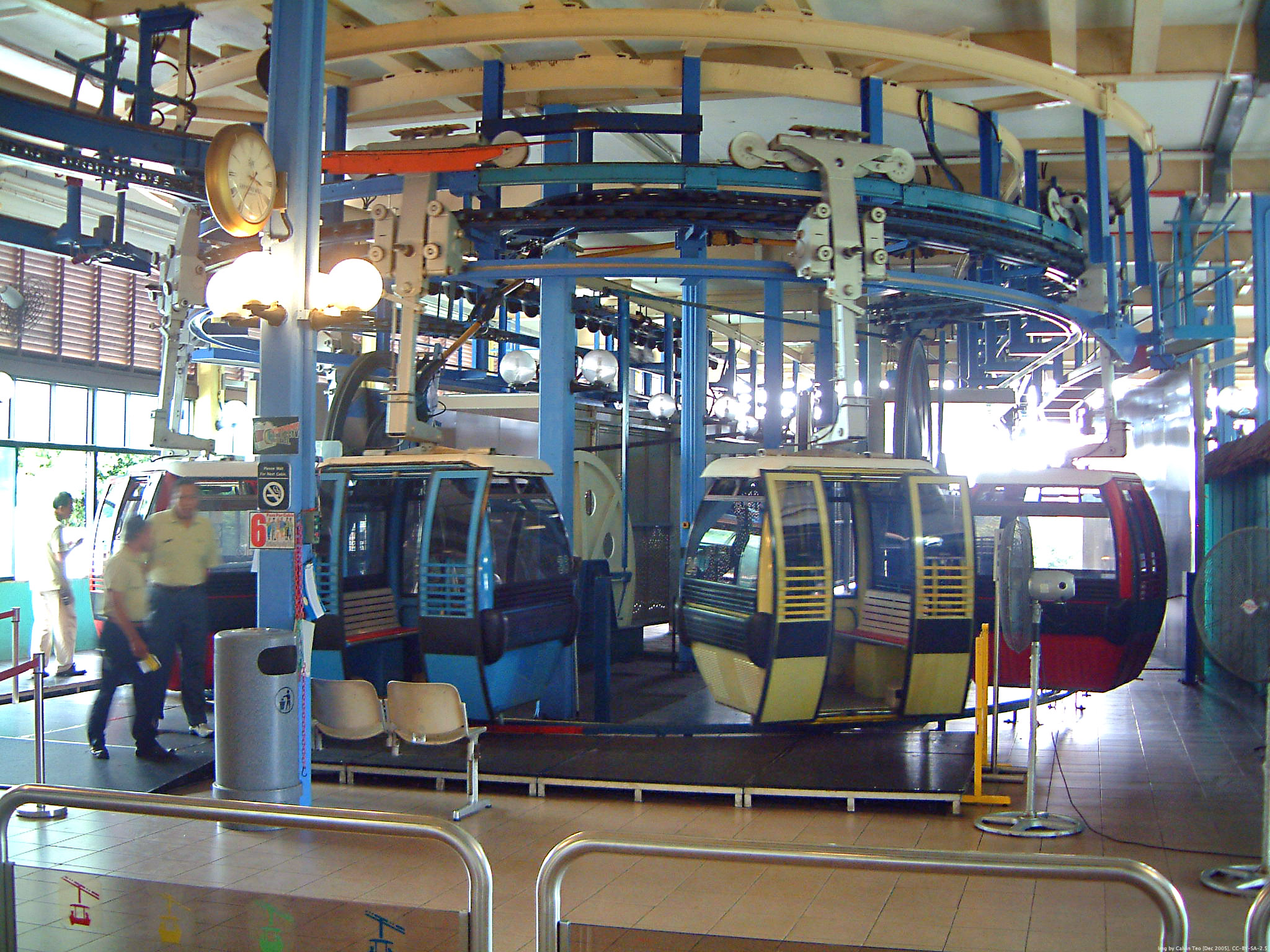 Setting Out - Cable Cars at the Sentosa Station of the Singapore Cable Car Sentosa, Republic of Singapore Img by Calvin Teo, December 2005